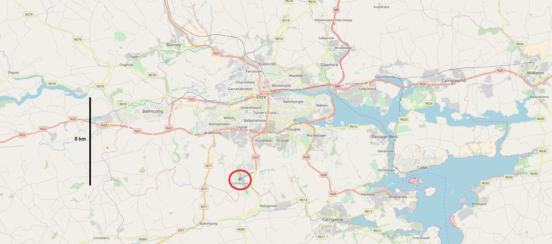 Map show Cork airport in relation to Cork City